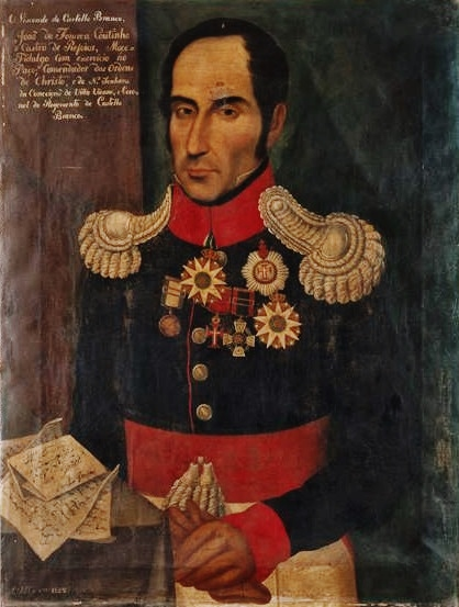 The Viscount of Castelo Branco, in an 1827 portrait.